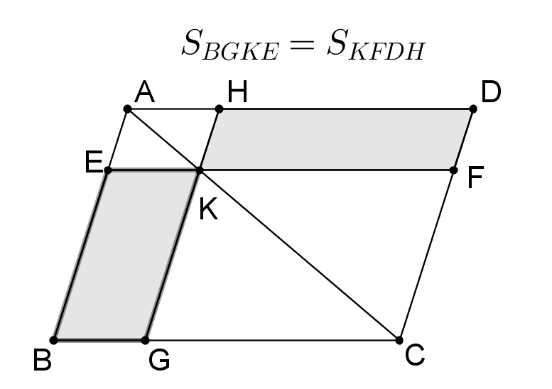 Diagram for Book 1, Proposition 43 of Euclid's Elements: The components of parallelograms which are about the diameter of any parallelogram are equal to one another.